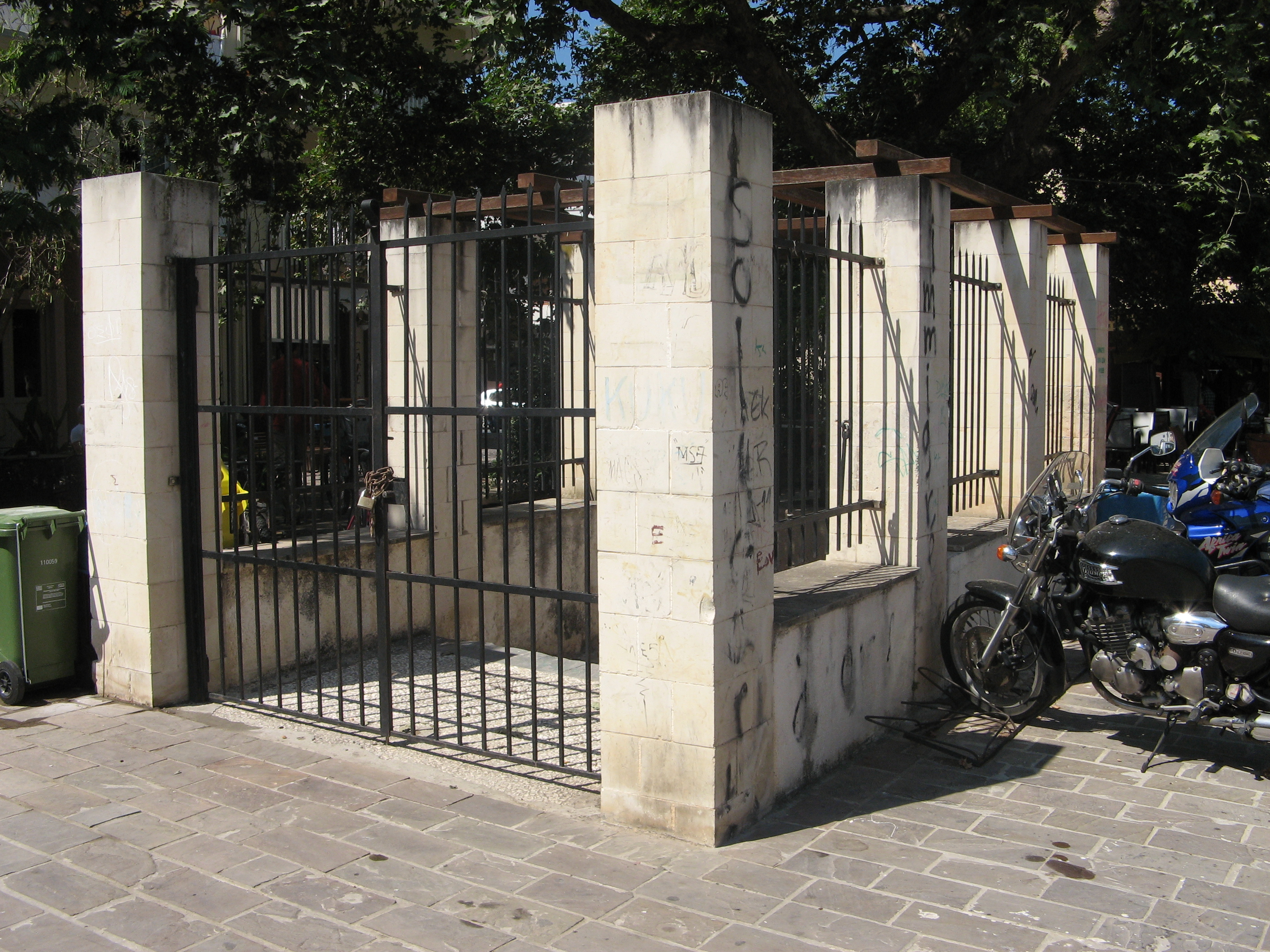 The underground gallery surrounded by railings. A large tank was found during the excavations.